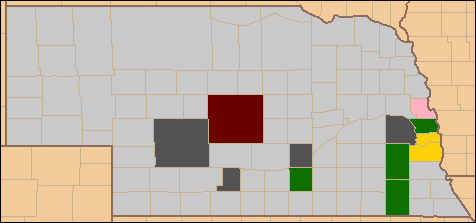 Election results, by county, of the 2008 Green Presidential Primary in Nebraska.